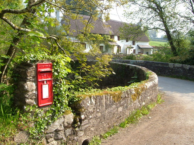 Combe Bridge. Picturesque scene at the hamlet of Combe, with the bridge over the River Mardle.